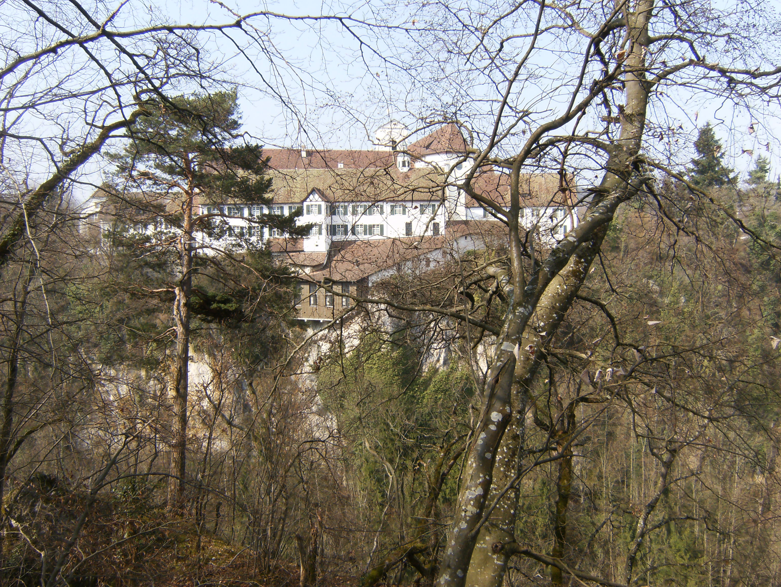 Mariastein SO